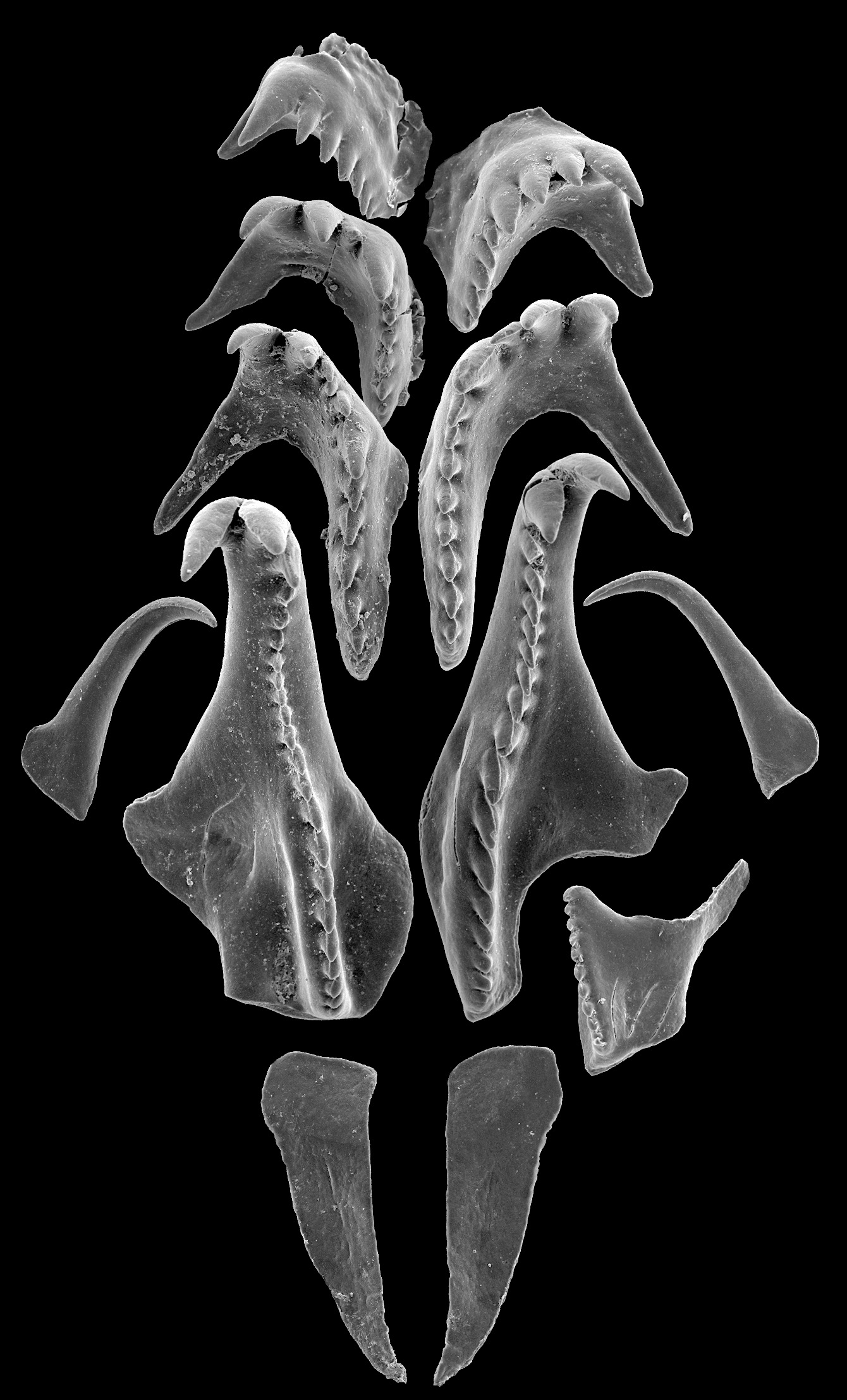 Reconstructed fossil polychaete jaw apparatus of the Genus Ramphoprion from the Middle Ordovician (Uhaku Regional Stage) of Estonia. The individual elements of an apparatus are called scolecodonts and they are common acid-resistant microfossils in Paleozoic strata. Scanning electron microscope image, the largest elements are about 1 mm long.